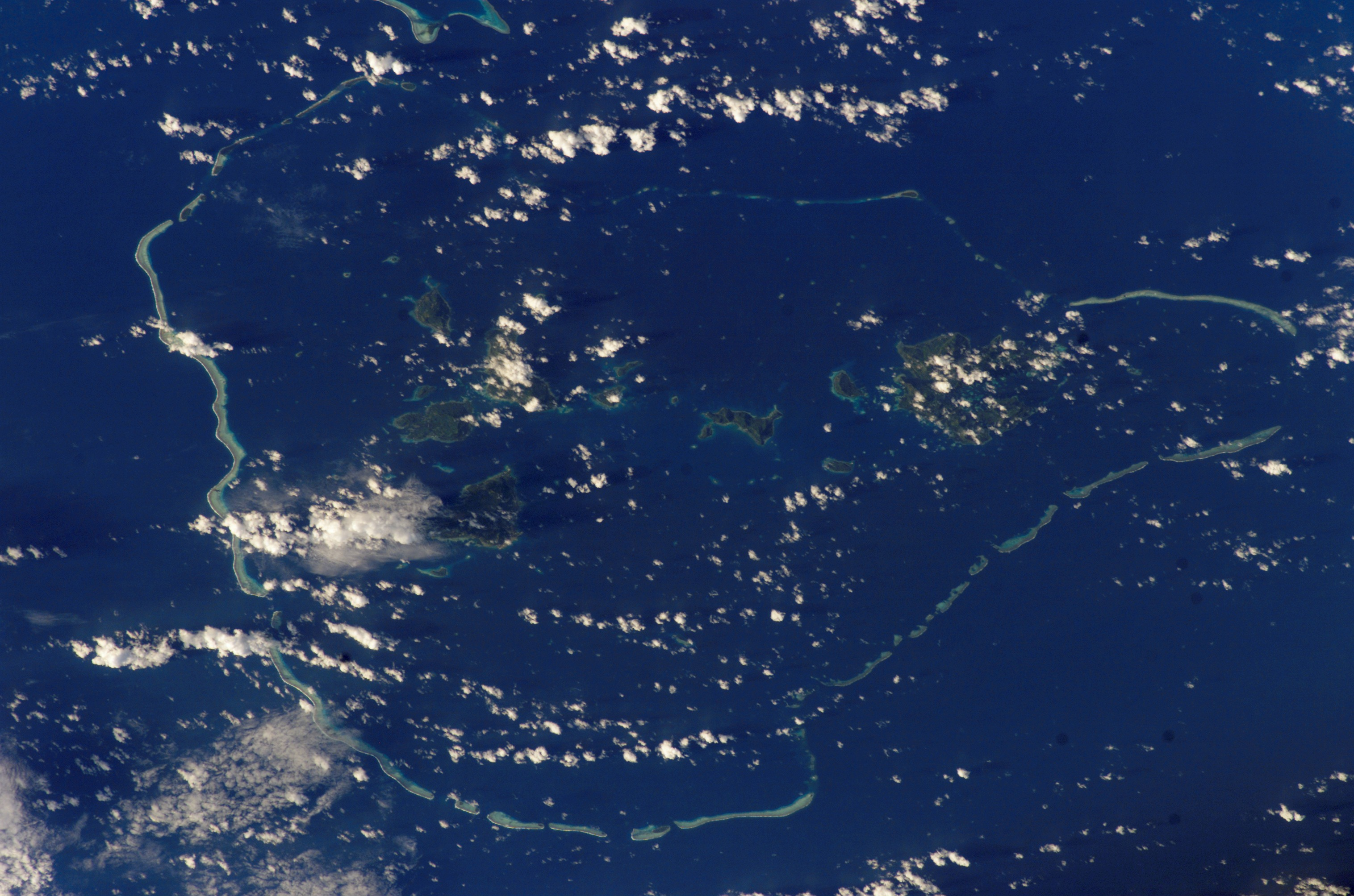 Chuuk islands. View is roughly from north.